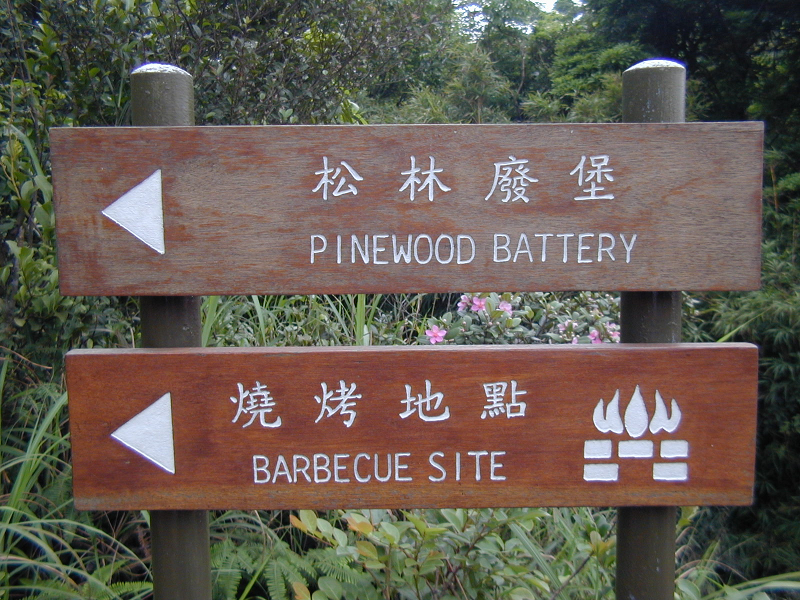 Photo of Lung Fu Shan Pinewood Battery